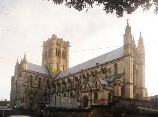 Norwich: Catholic cathedral church of St. John the Baptist The second largest Catholic cathedral in the UK became such in 1973, prior to which it was the city's Catholic parish church. It is approaching its centenary, having been built in 1910.